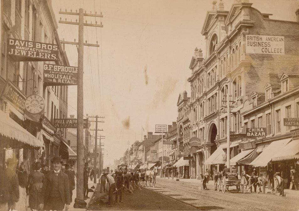 Yonge Street, looking north at the east side of the street. The Yonge Arcade (at Temperance Street) is seen on the right of the photo. (Toronto, Canada).